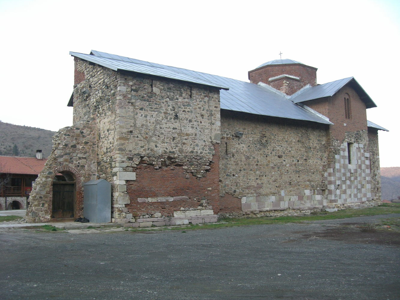 Banjska Monastery, view of the right tower